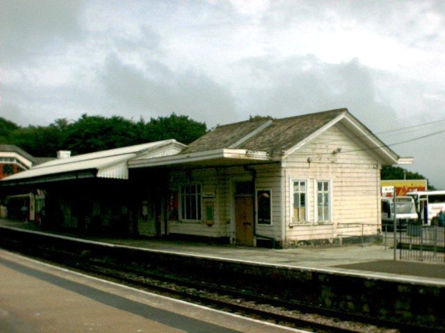 The old railway station at St Austell, Cornwall, United Kingdom. This was demolished in 1999 and repalced witha modern building, but this view shows part of the original building of 1859 (nearest the camera) and the 'new' building of circa 1882.